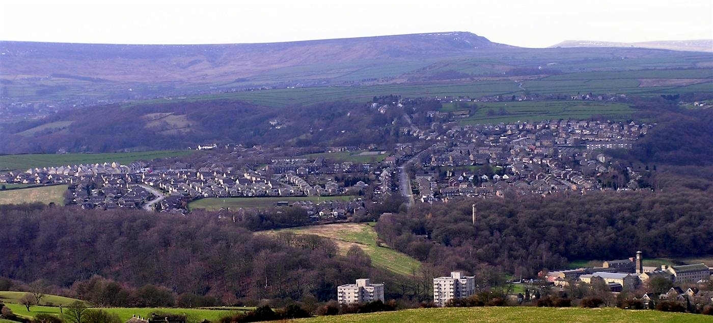 View of Netherton & South Crosland, from Castle Hill, Huddersfield. Meltham Village is in the valley to top left of photo